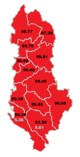 Albanian majority over 50% Black text represent the percentage of the main mother tongue in the adequate county, light blue text represent the precentage of greek language that is used as a mother tongue in the adequate county.